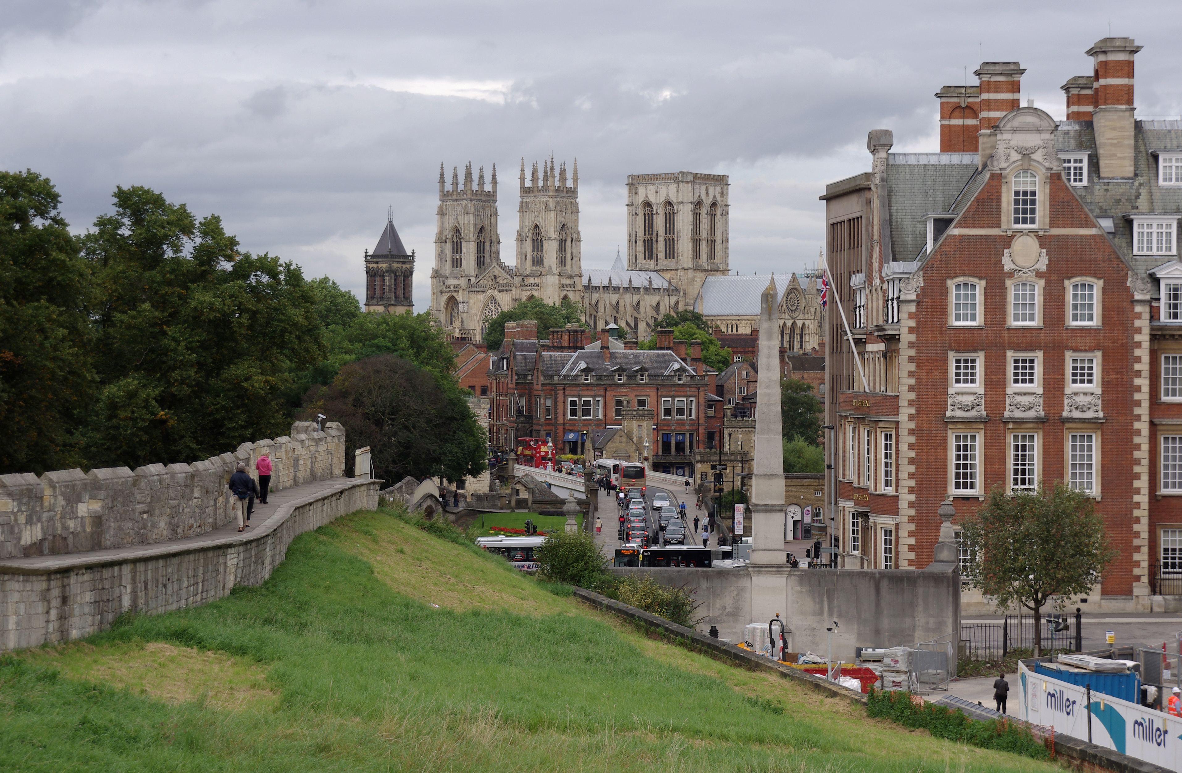 Looking east along the York city wall from the north-west corner.